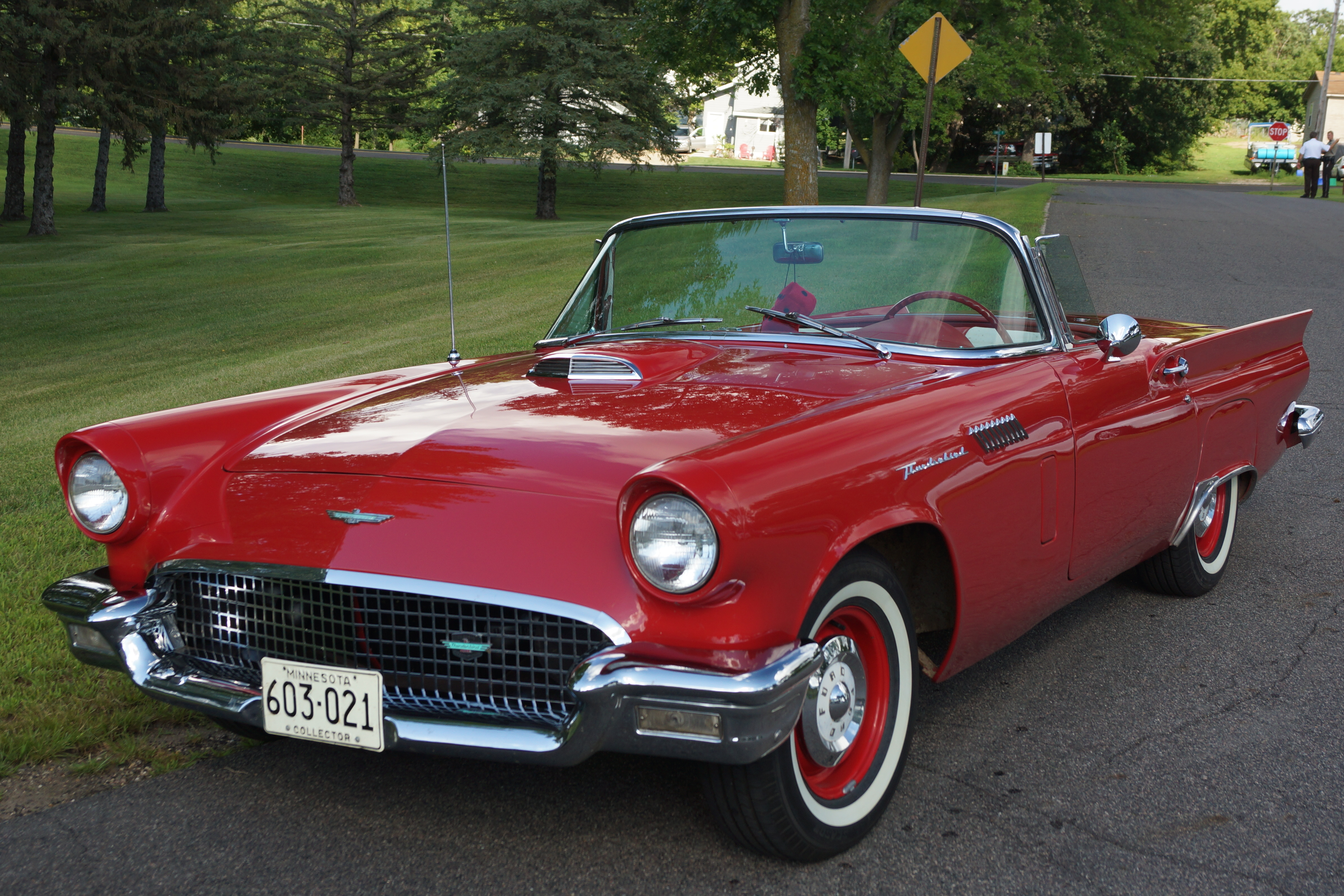 30th Annual New London to New Brighton Antique Car August 2016 Day 3, Pre-tour Rosenquist Farms Atwater, Minnesota Photo Location: Diamond Lake A few previous years of the New London to New Brighton Antique Car Run. Click here for more car pictures at my Flickr site.